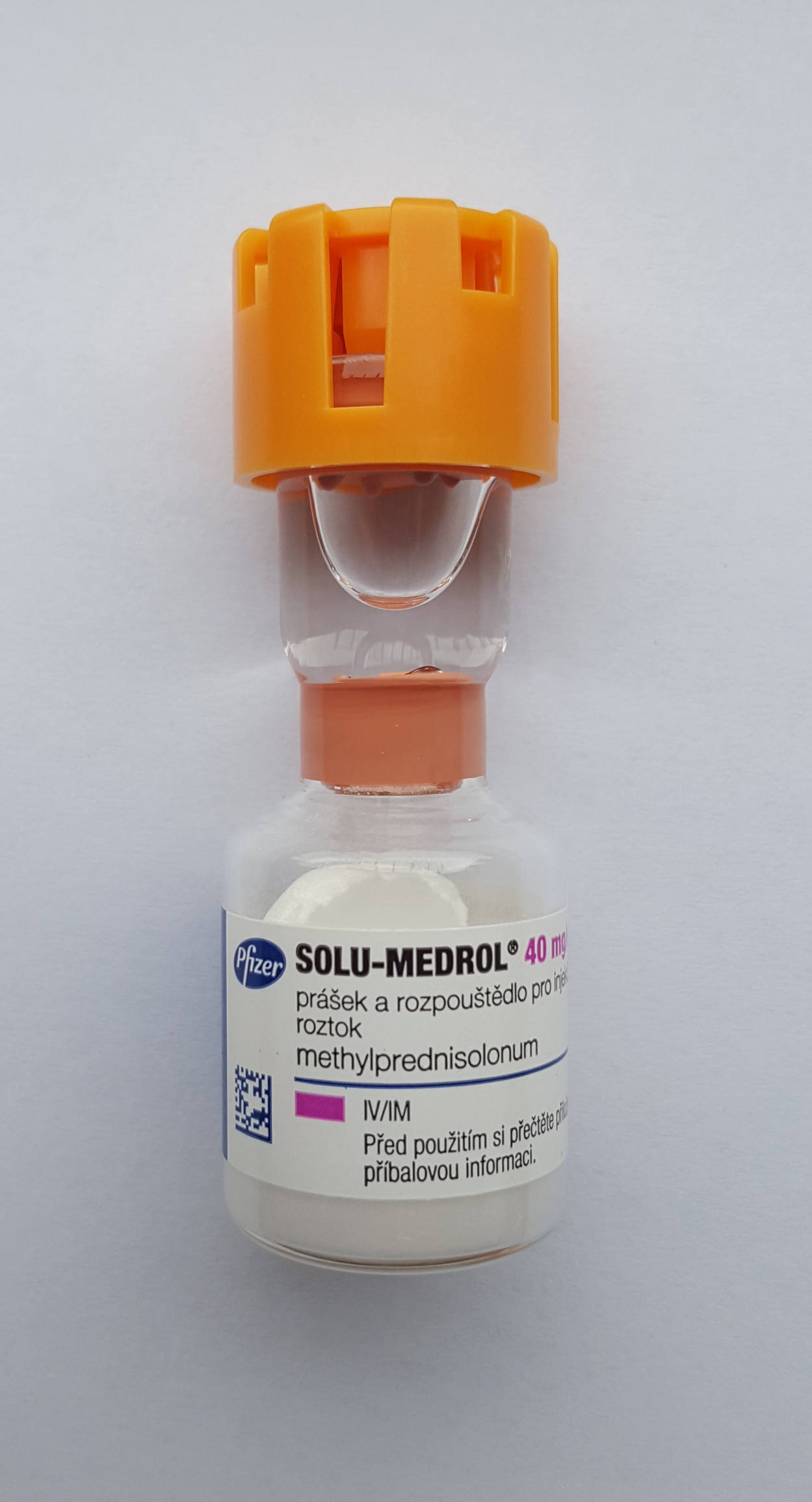 Methyprednisolone 40mg vial